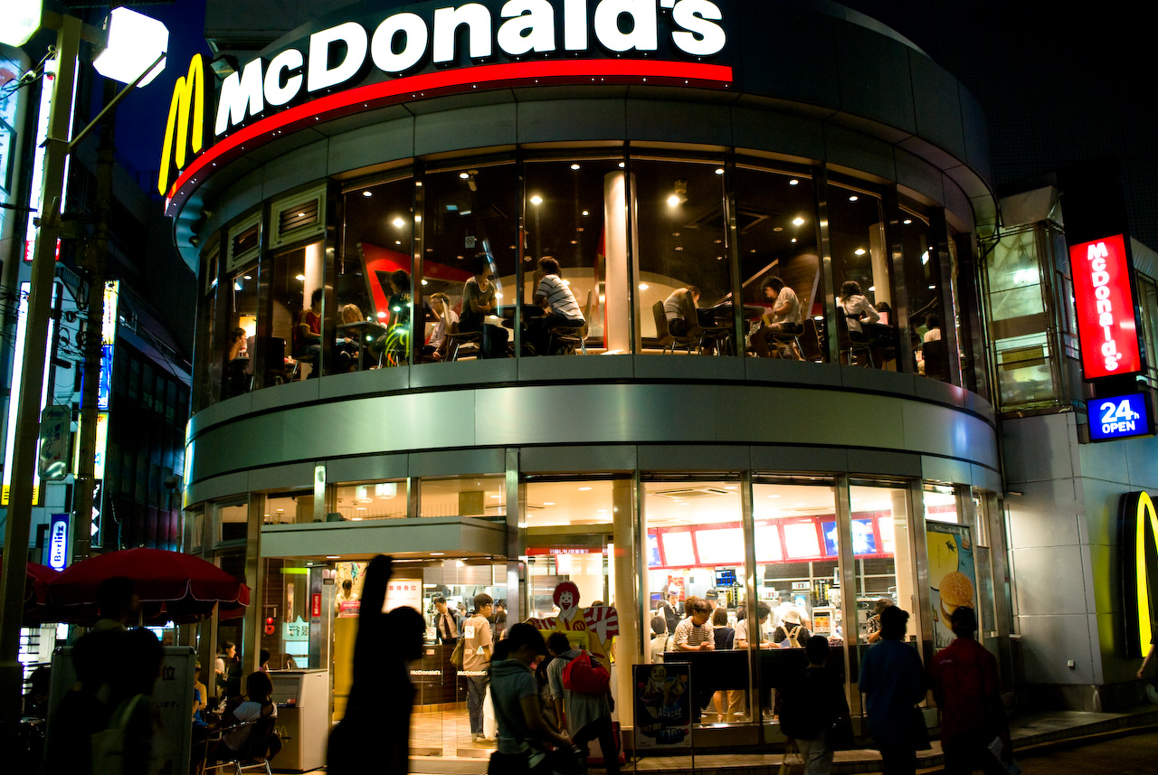 Mcdonald's in Machida at night